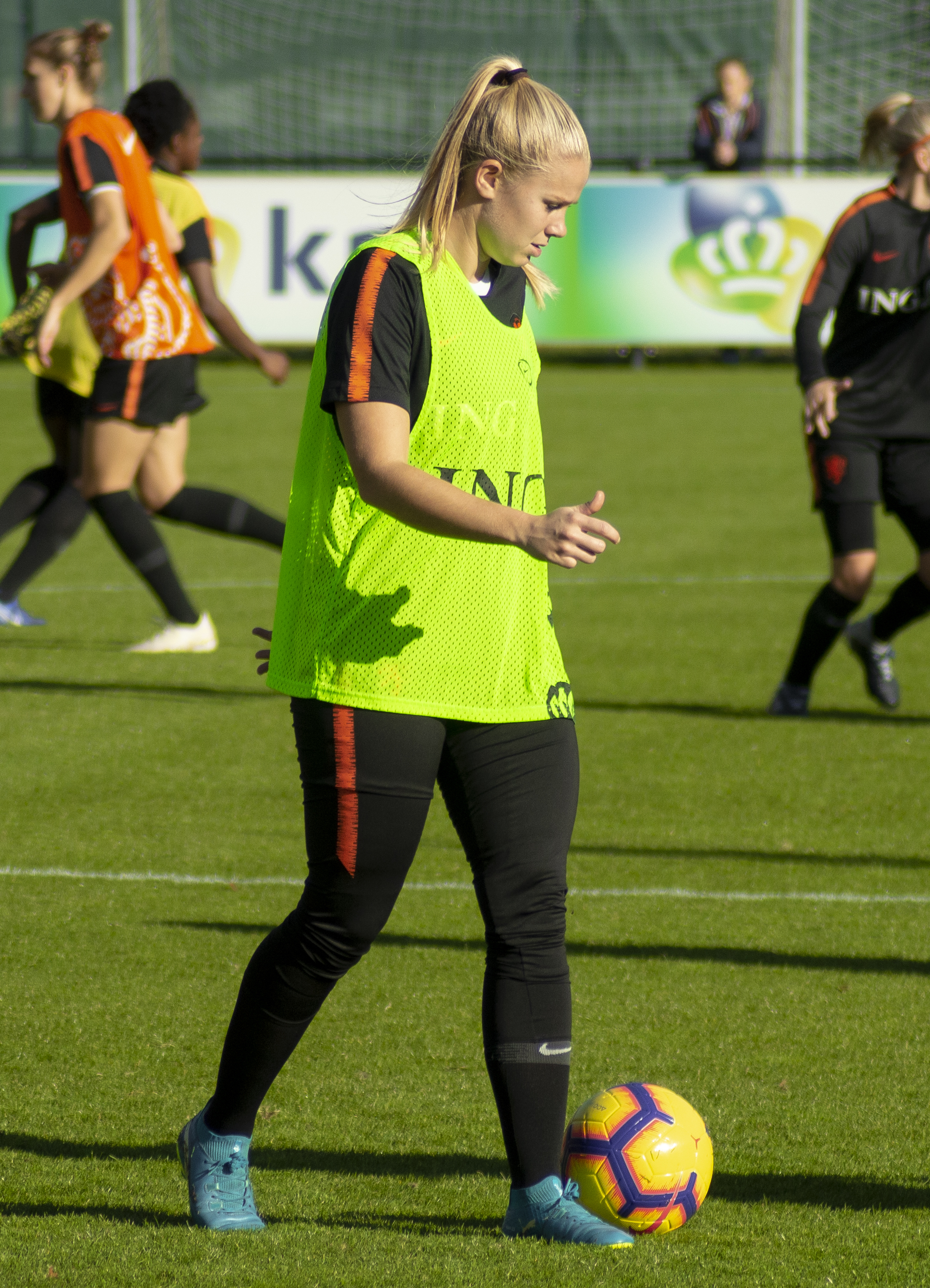 Kika van Es training with the Netherlands women's national football team on November 6, 2018.